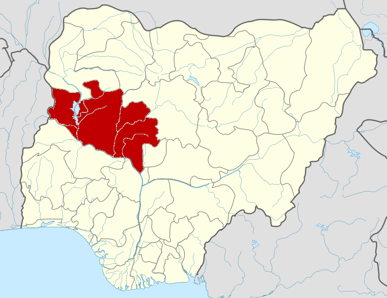 Map locator of Nigeria.